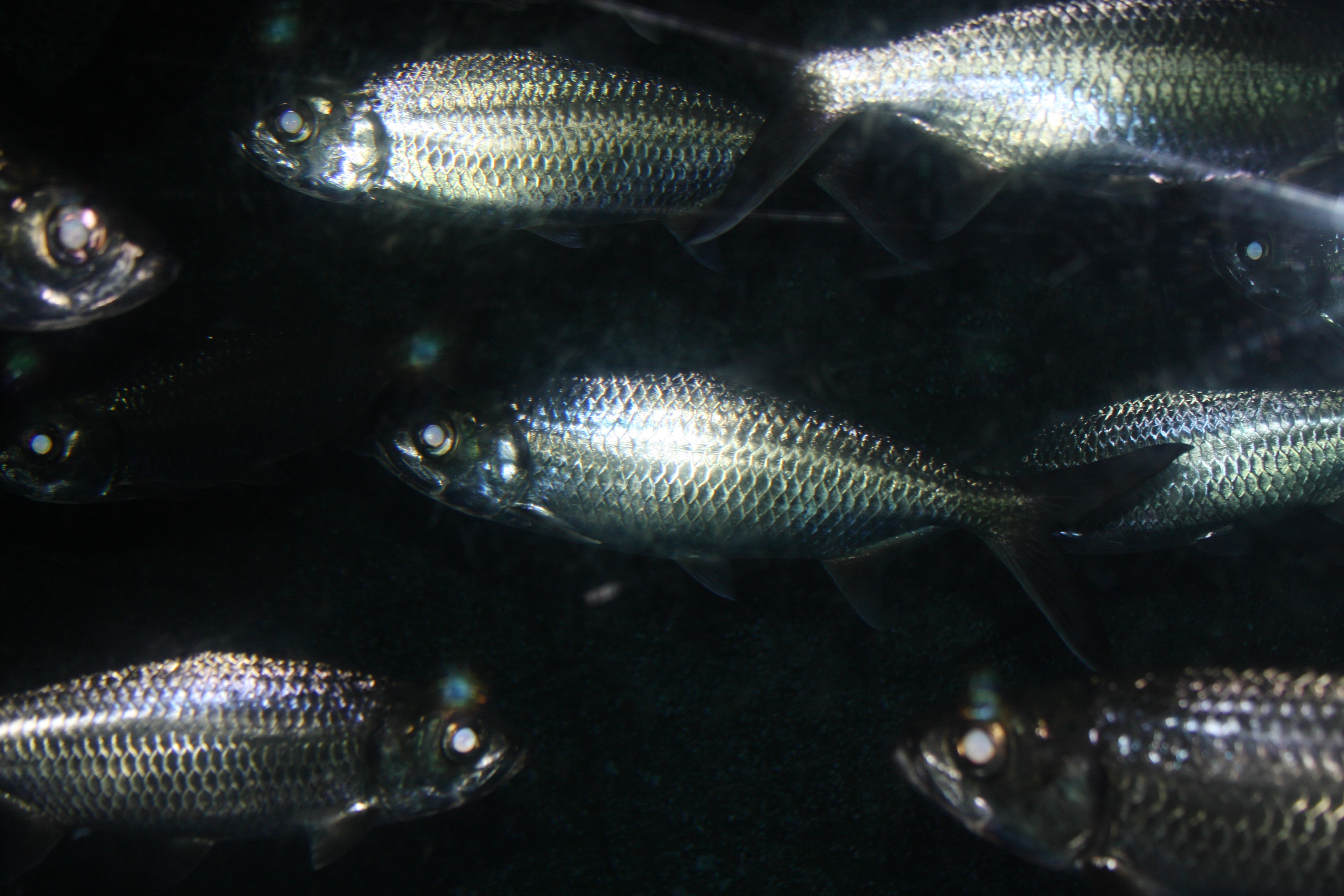 A scoal of Megalops cyprinoides in Siam Centre's aquarium, Bangkok